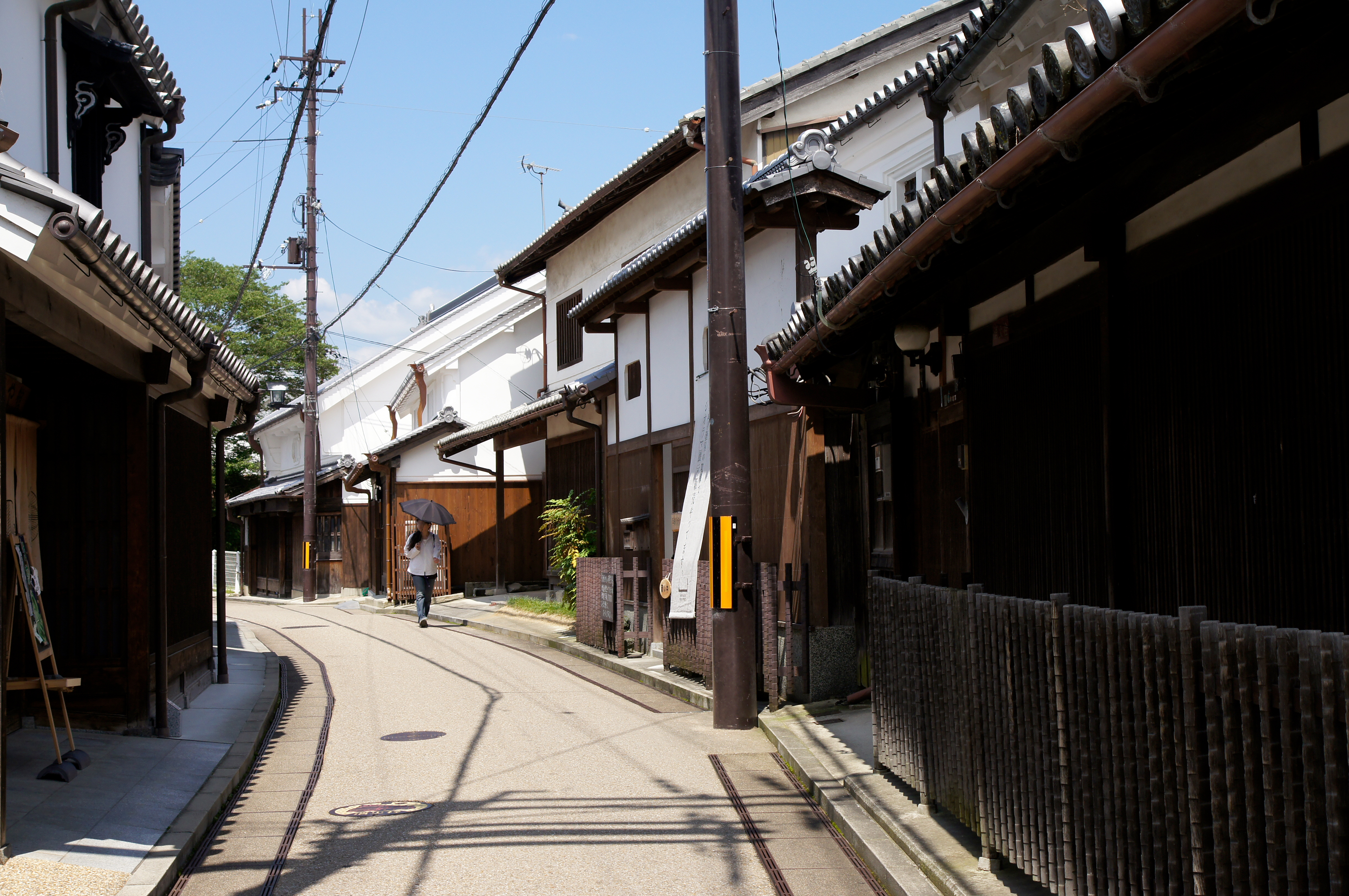 Gojo Shinmachi designated as Important Preservation Districts for Groups of Historic Buildings in Japan. It is located in Gojo, Nara prefecture, Japan.